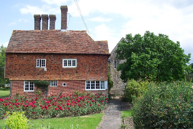 Hornes Place and Chapel, near Appledore Kent. A 14th-century domestic chapel which was once attached to the manor house. During the Peasants Revolt in 1381 supporters of Wat Tyler in Appledore sacked Horne's Place. The house and chapel are privately owned but access to the chapel can be arranged through English Heritage.